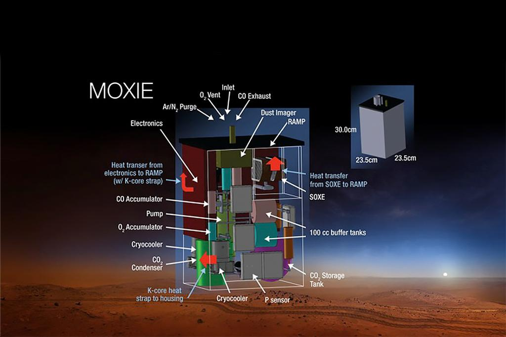 MOXIE (Mars OXygen In situ resource utilization Experiment) is an experimental oxygen generation instrument which will separate O2 from the carbon dioxide-rich 95% Martian atmosphere in a process called solid oxide electrolysis. This technology demonstrator will fly to Mars aboard the 2020 Mars Rover.